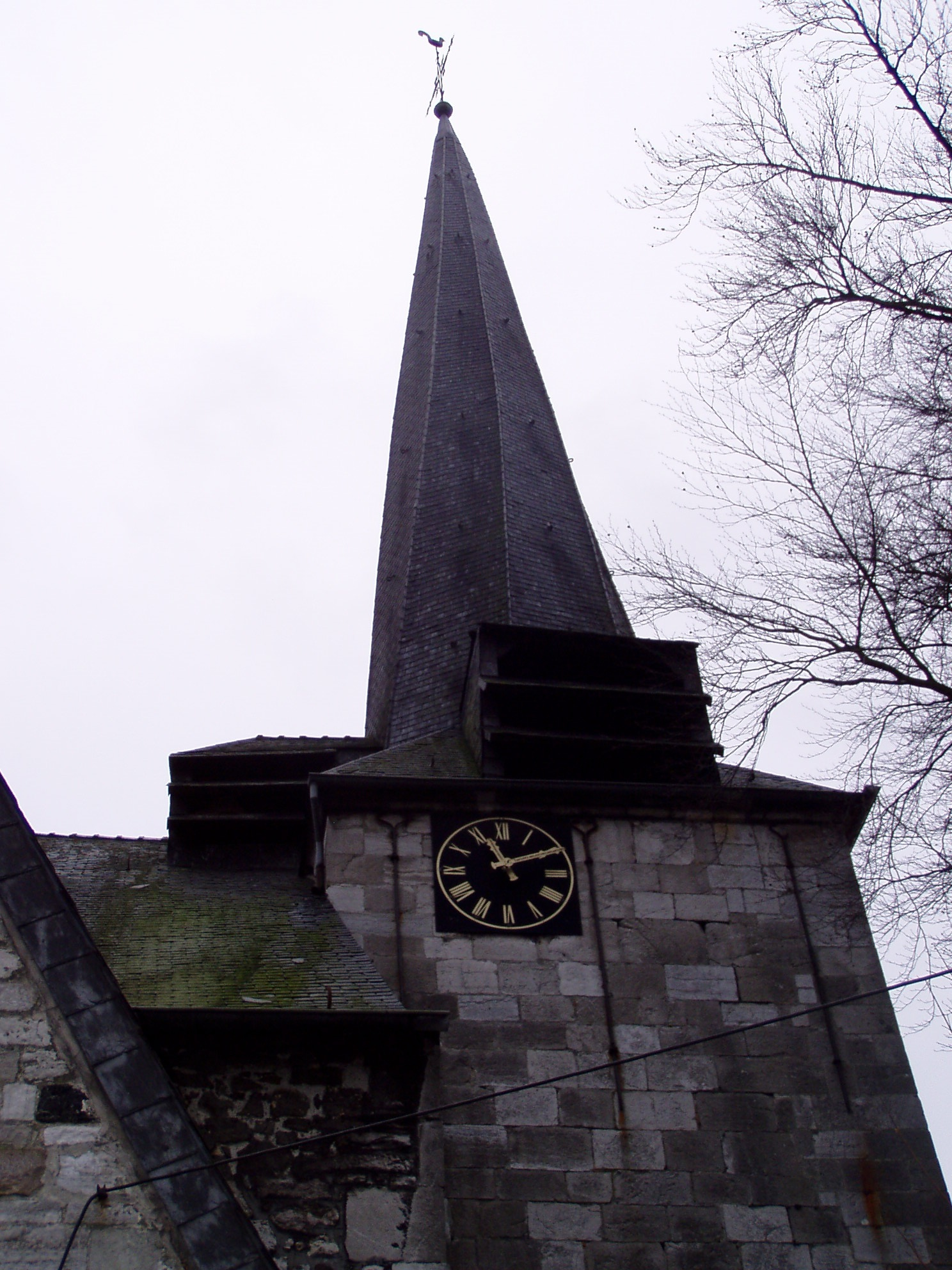 Leernes_clocher.jpg